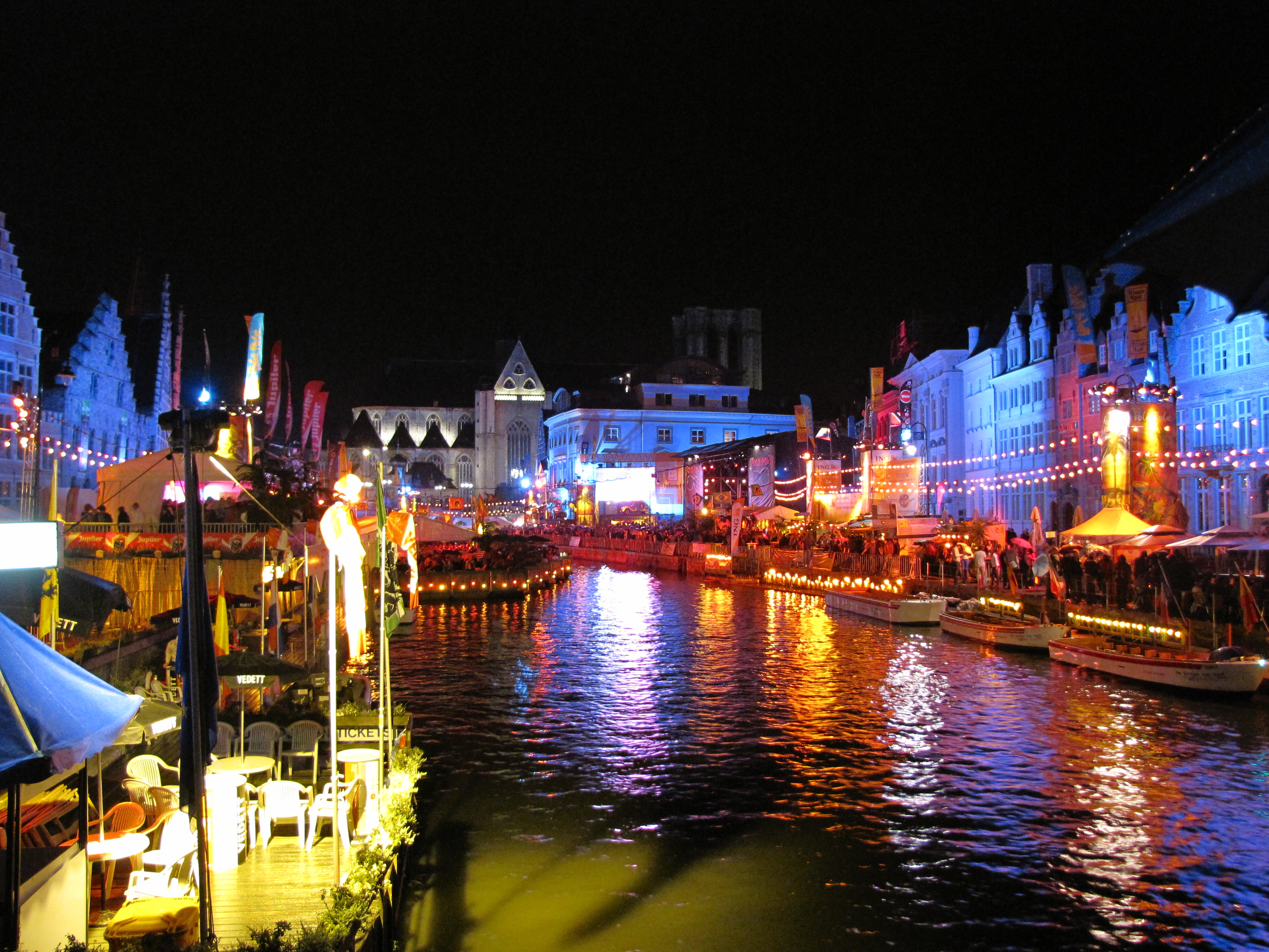 Polé polé 2009, by night